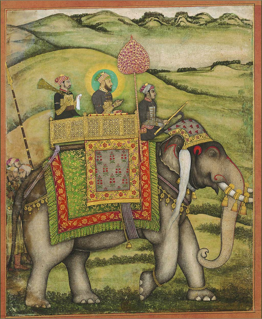 The Emperor Bahadur Shah I mounted on an elephant. End of 17cent. Bibliothèque nationale de France, Paris